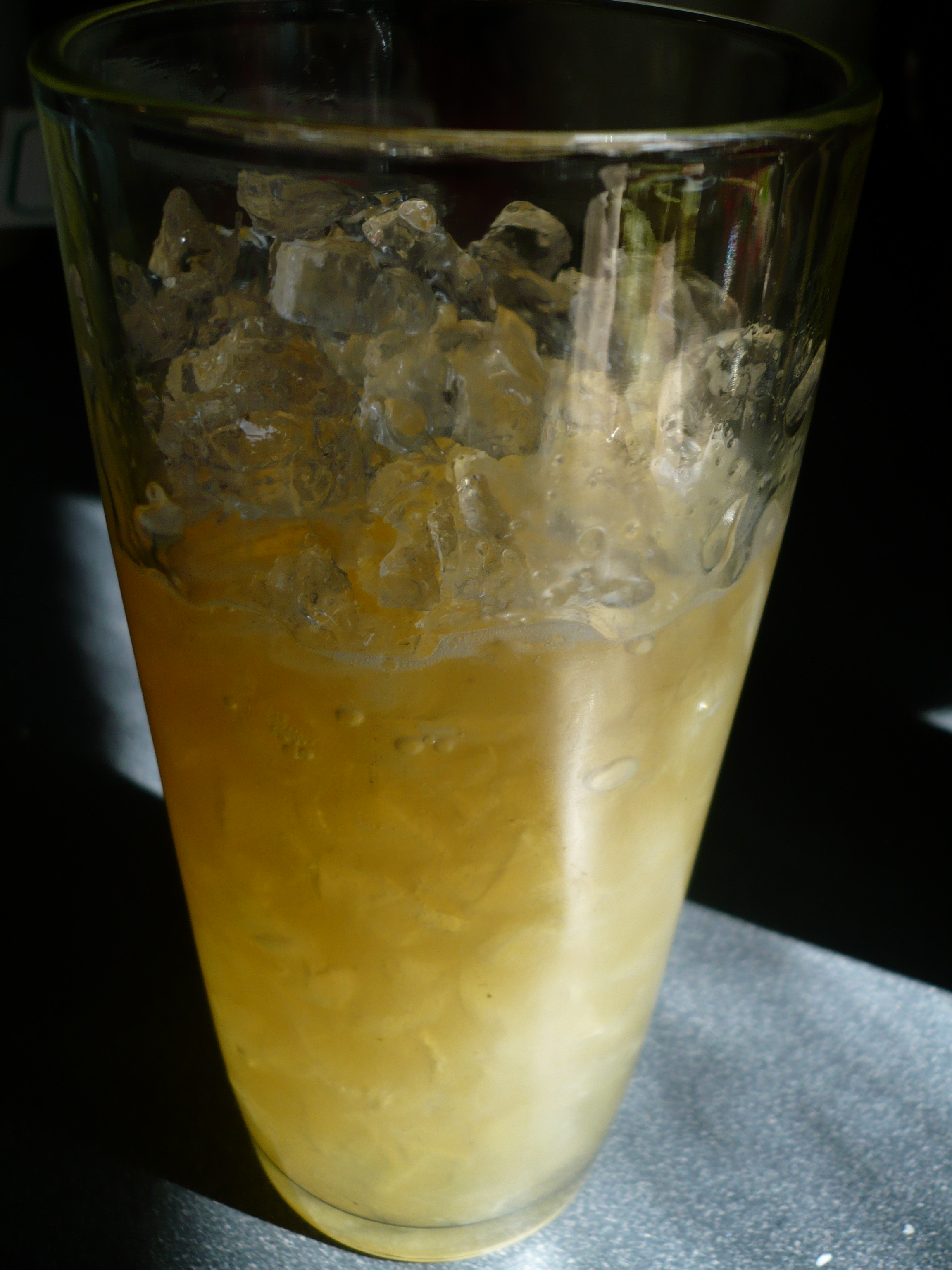 falernum and ice, awaiting delicious rum and bitters.